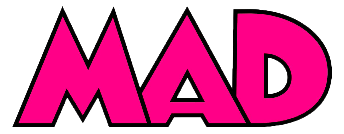 The new Mad Magazine logo used from 2018 onwards